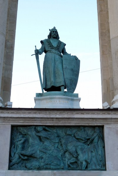 Statue of Charles Robert, Budapest, Heroes' Square